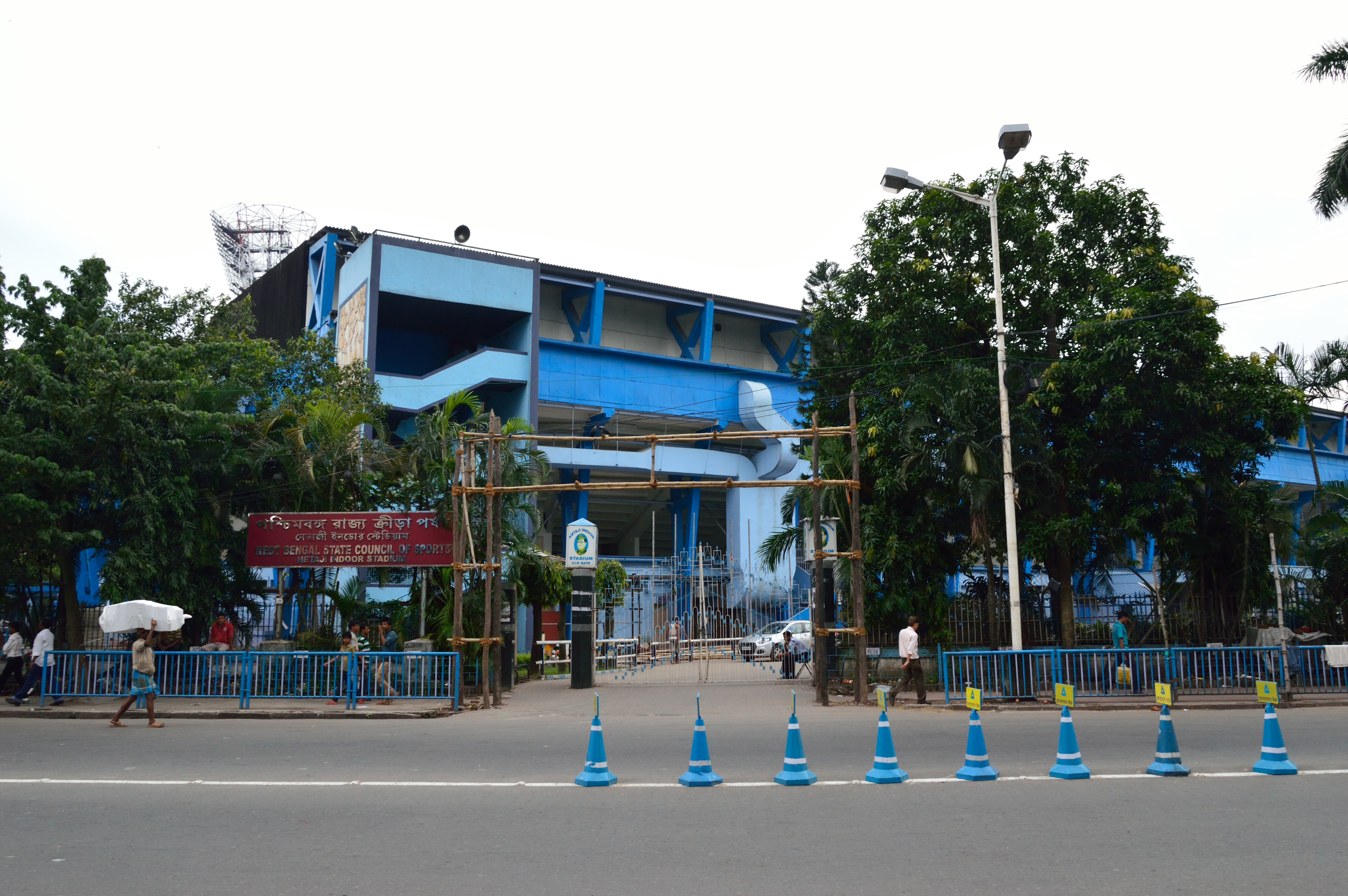 Photographed in greater Kolkata.